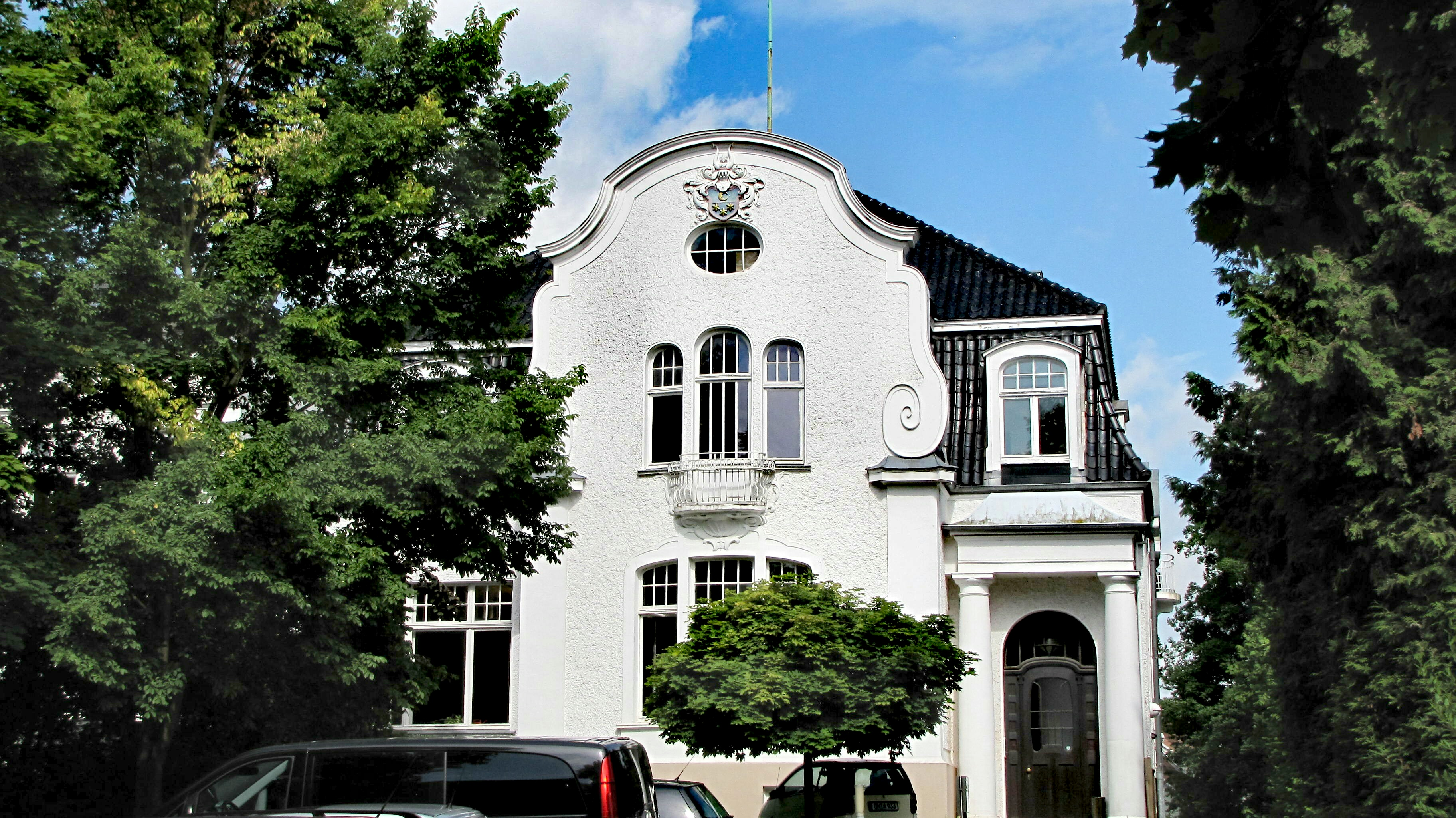 Villa Eschenburgstrasse 7 in Lübeck. During WWI this was the residence of the Swedish consul.